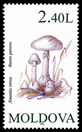 Amanita virosa depicted on a stamp of Moldova